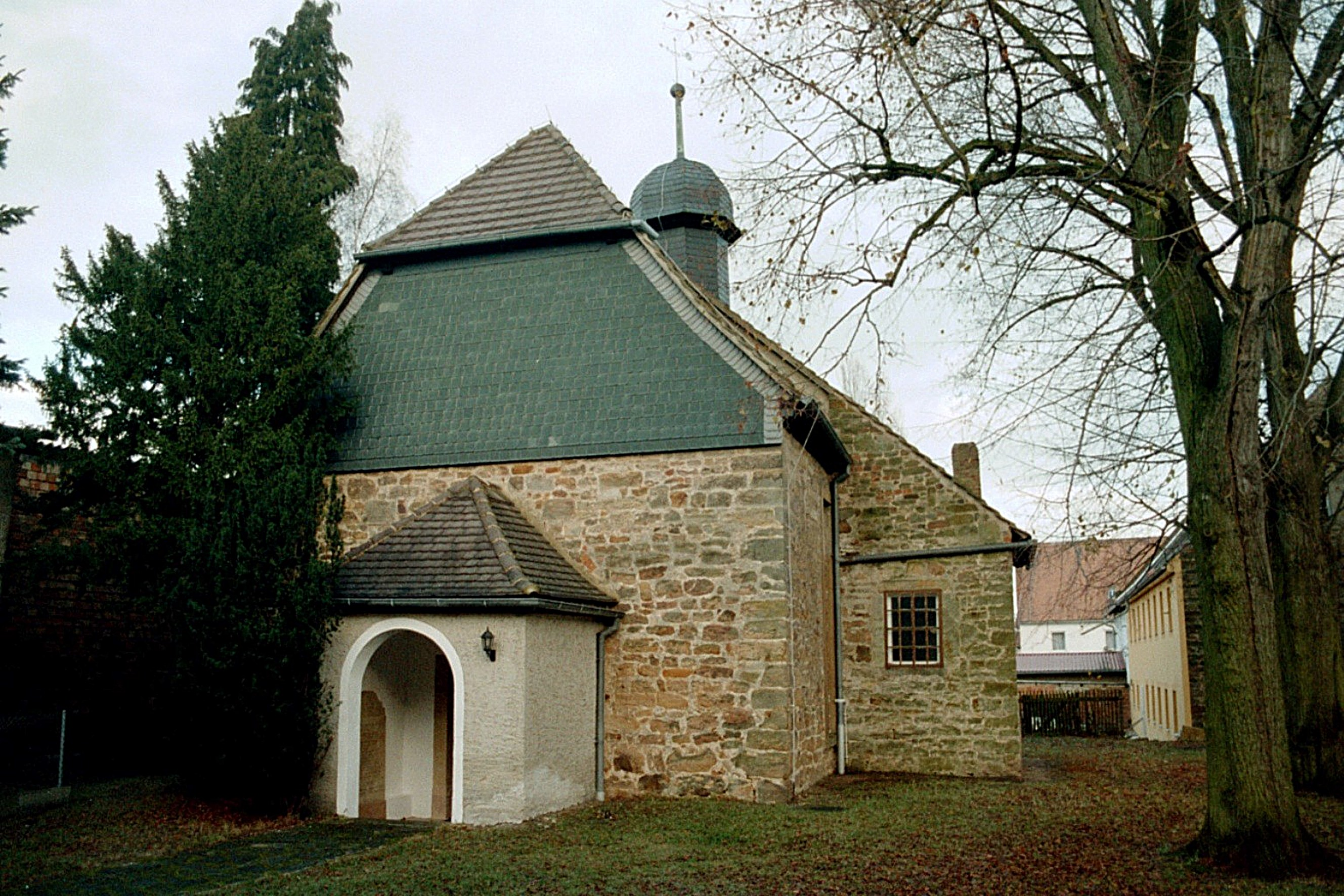 Goesen, the village church